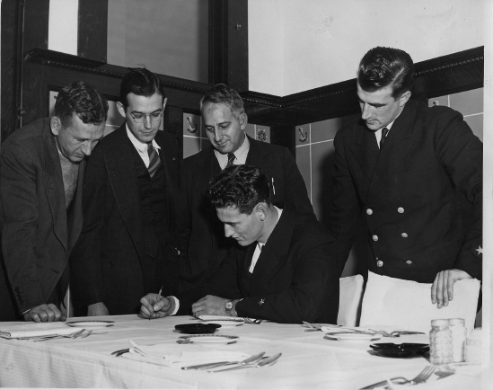 A press photo of Ted Williams in his military uniform signing autographs around 1944 in Kokomo, Indiana. Others in photograph (left to right) include Ralph King, Richard "Dick" Rainbolt (glasses), Haines Sleeth, Ted Williams, and Johnny Pesky. Photograph owned by Jim Epler (grandson of Richard Rainbolt).